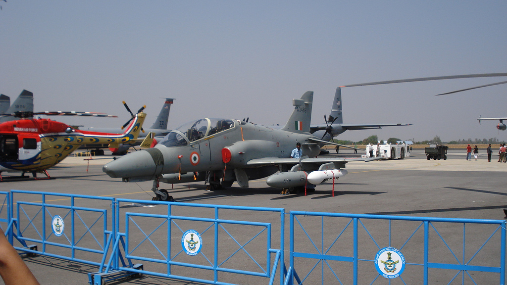 BAe Hawk of the Indian Air Force